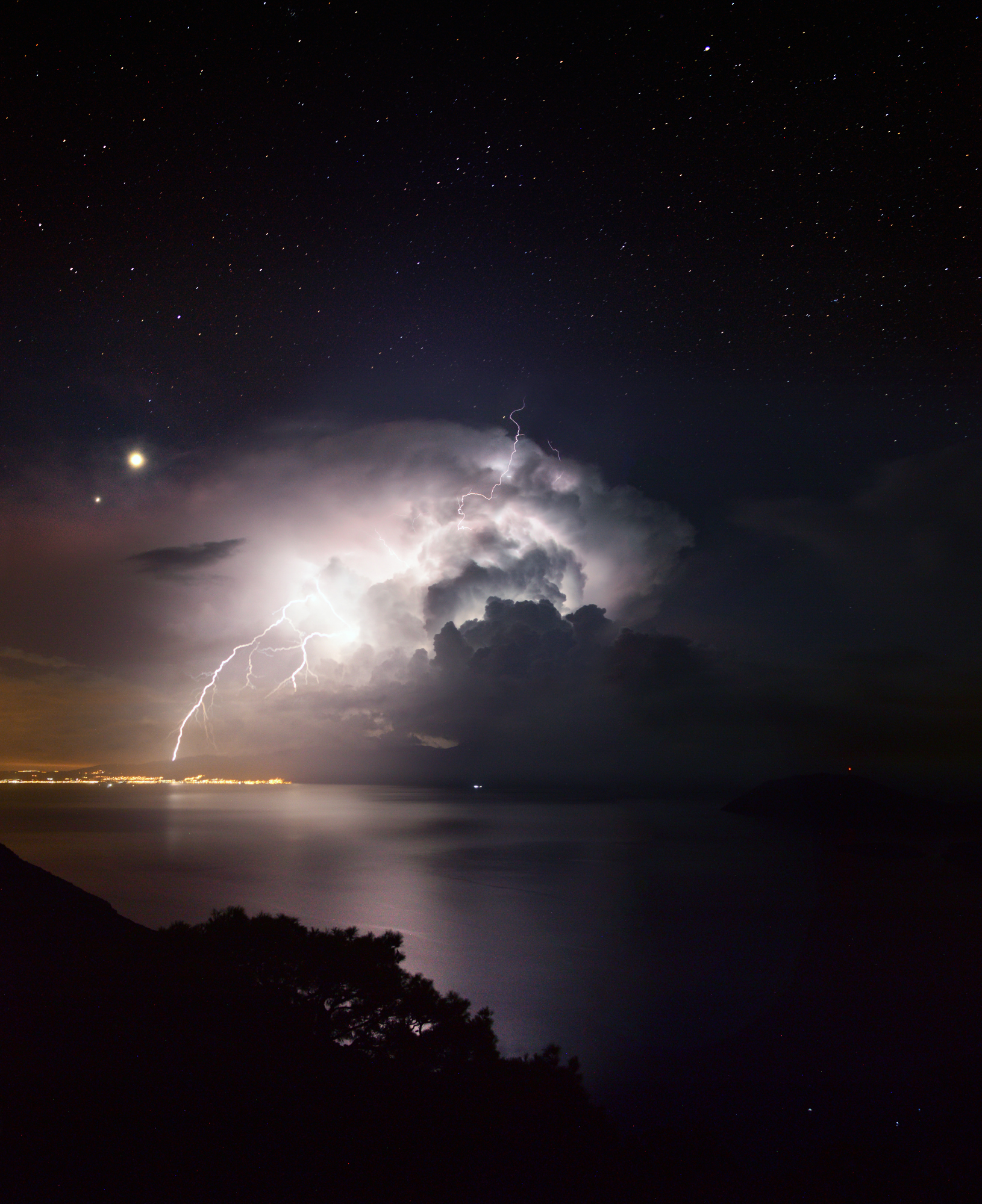 The clear starry night and the conjunction of Venus and Jupiter provide the best background for this photogenic severe storm going off Samos Island in Greece on 10/21/2015. Notice the "bolt from the blue" striking many miles from the cell and the "cloud-to-air lightning" captured in the shot.